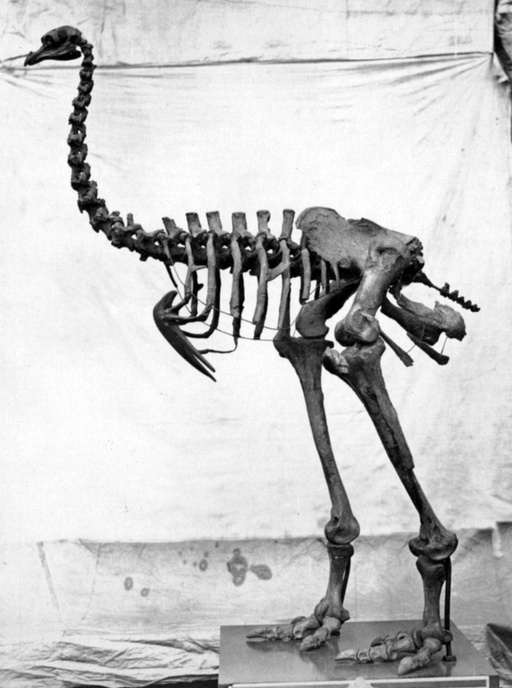 Pachyornis elephantopus skeleton.